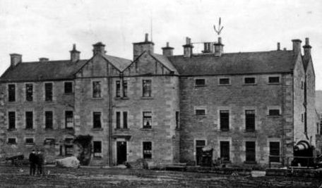 Photograph of the Old Barracks, Cupar, Fife, Scotland